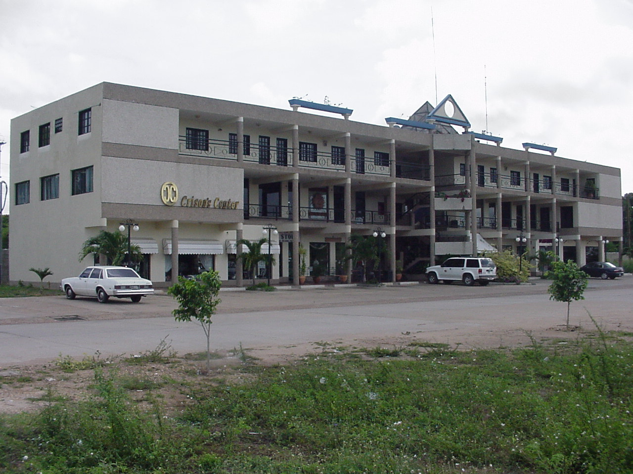 centro comercial